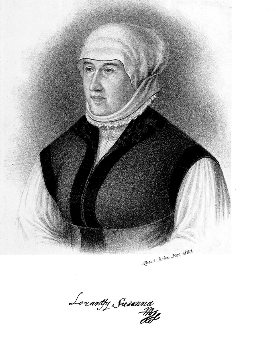 Portrait of Zsuzsanna Lorántffy (1600 - 1660), Protestant Princess of Transylvania.